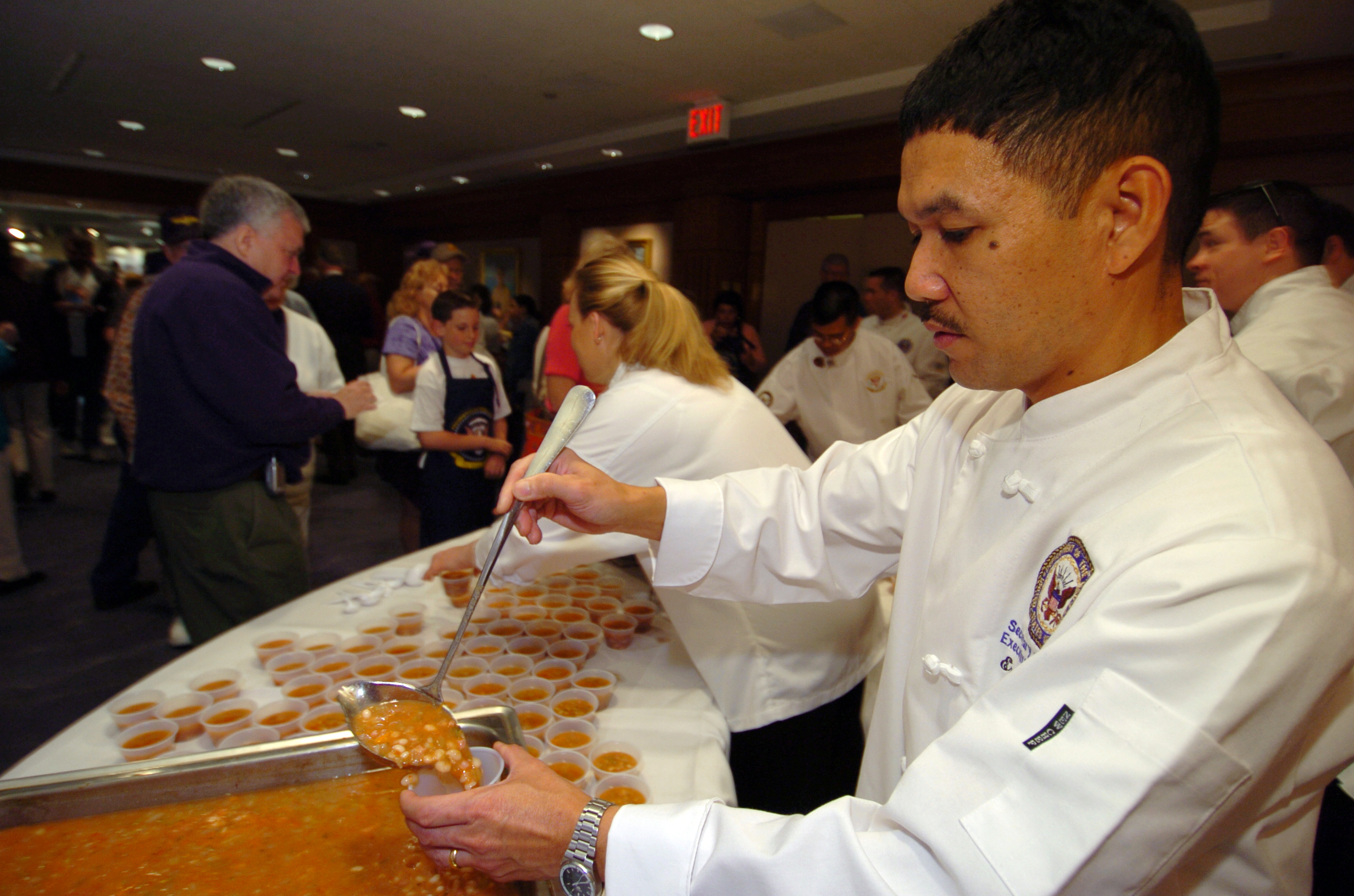 Washington, D.C. (April 9, 2005) - White House Chef Culinary Specialist 1st Class Ernesto Alvarez serves Navy Bean soup to visitors at the Navy Memorial following the 14th annual Blessing of the Fleet ceremony at the Navy Memorial in Washington, D.C. The blessing included the "charging" of four fountains with water from the seven seas and the great lakes, signaling the beginning of spring at the Navy Memorial and the official opening of tourist season on Pennsylvania Avenue. U.S. Navy photo by Damon J. Moritz (RELEASED)